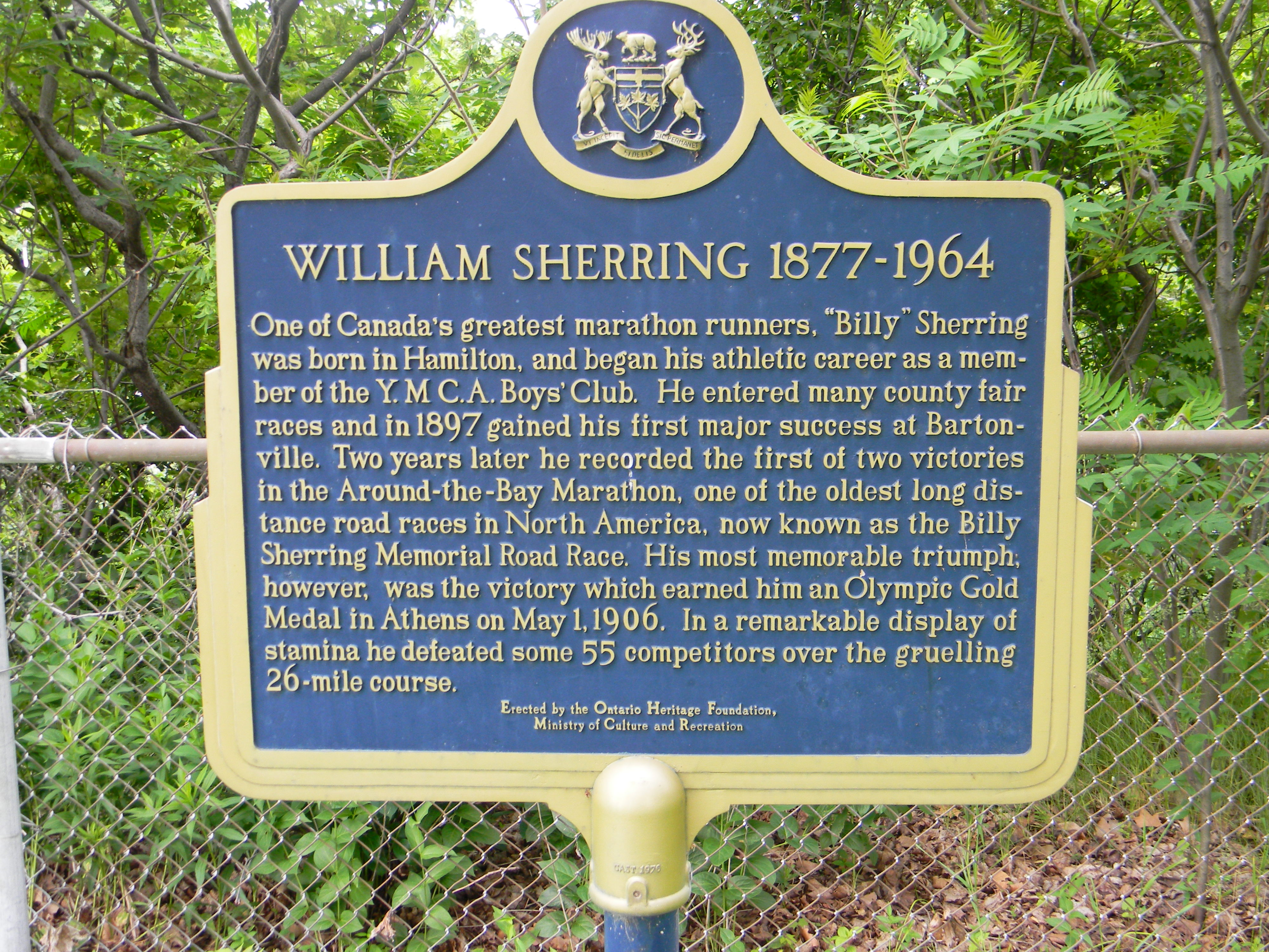 Item part of: Ontario Heritage Foundation. Patent and Copyright William J. Sherring, Historical Markers Copyright: Expired Credit: Ministry of Culture and Recreation / PA